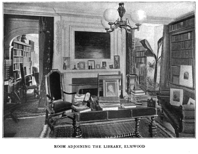 Image labeled as "Room adjoining the library, Elmwood." Elmwood was the home of poet and professor James Russell Lowell in Cambridge, Massachusetts. The image was scanned from James Russell Lowell and His Friends by Edward Everett Hale. Published by Houghton, Mifflin and company, 1899.